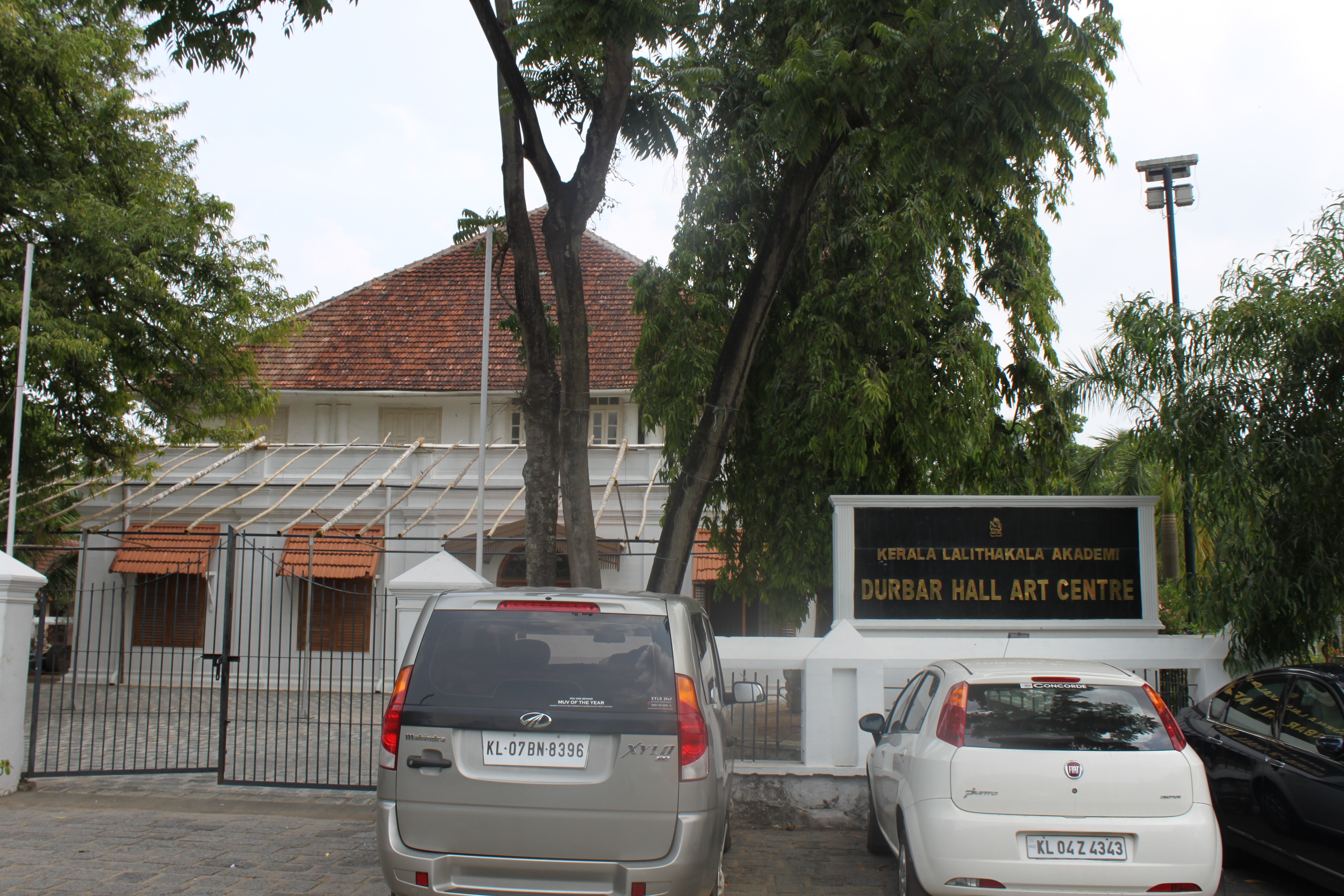 Durbar hall art centre - ernakulam